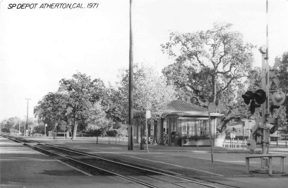 Atherton station in 1971, on a postcard published in the 1980s